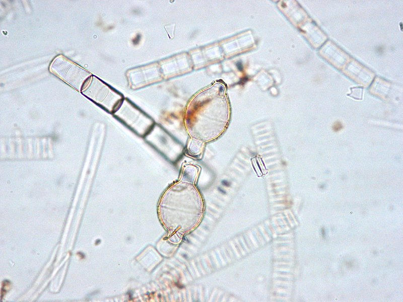 This work is free and may be used by anyone for any purpose. If you wish to use this content, you do not need to request permission as long as you follow any licensing requirements mentioned on this page.